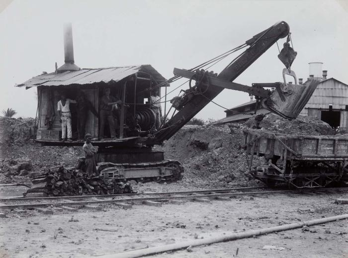 A steam shovel is loading lorries to transport bauxite to the factory of the Suriname Bauxite Company (SBM)